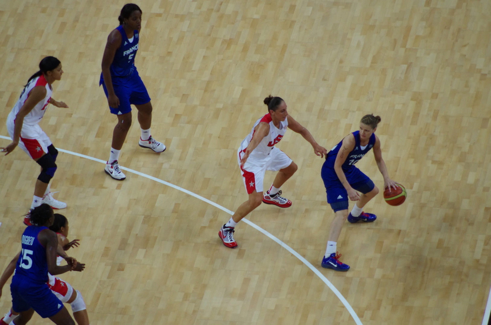 Women's basketball final